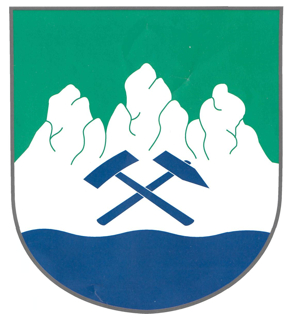 Municipal coat of arms of Kamenná village, Jihlava District, Czech Republic.